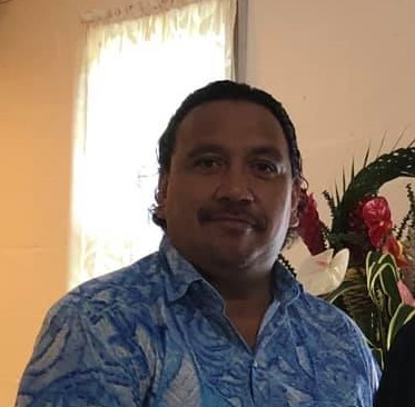 Robert Tapaitau in 2019